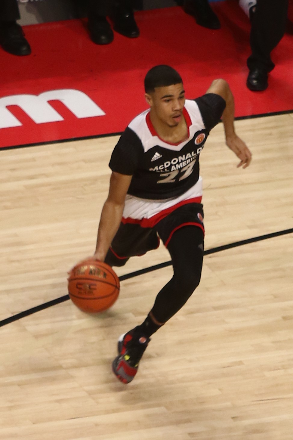 Jayson Tatum at the w:2016 McDonald's All-American Boys Game